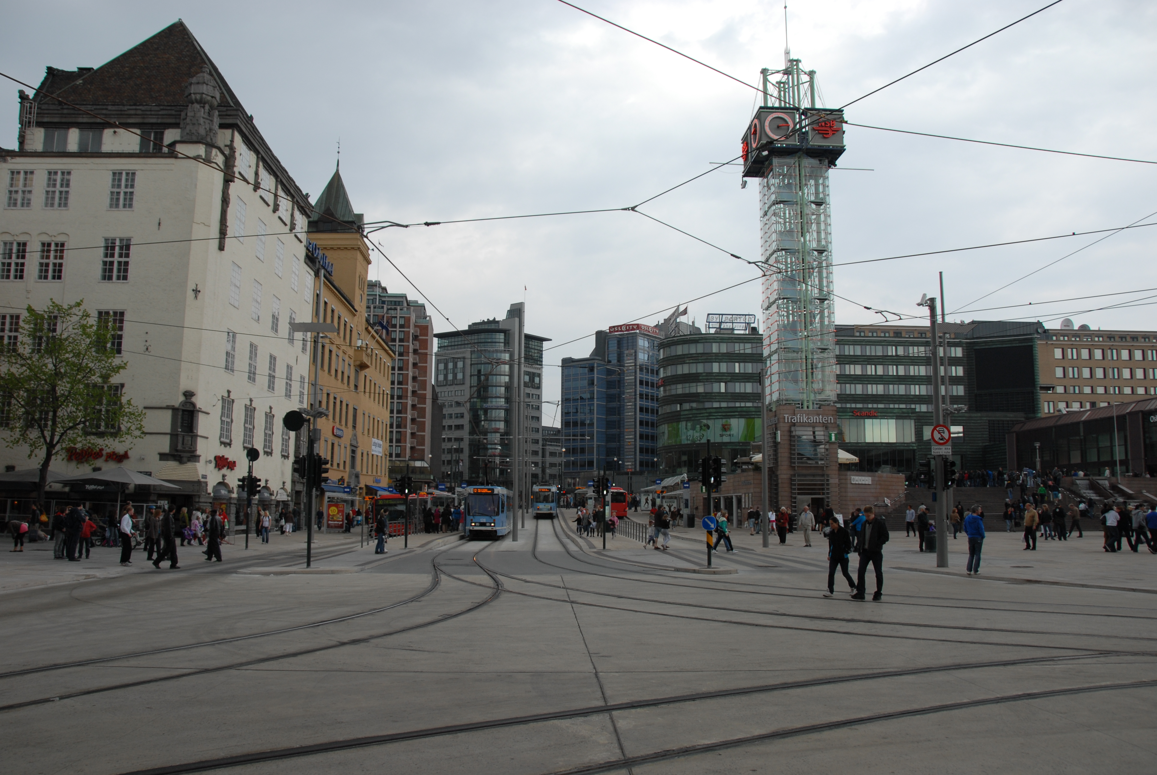 View of the new Jernbanetorget in Mai 2009 just after opnening